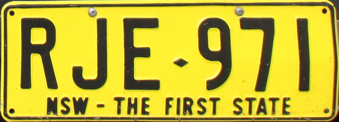 General issue vehicle registration plate of New South Wales, with slogan The First State